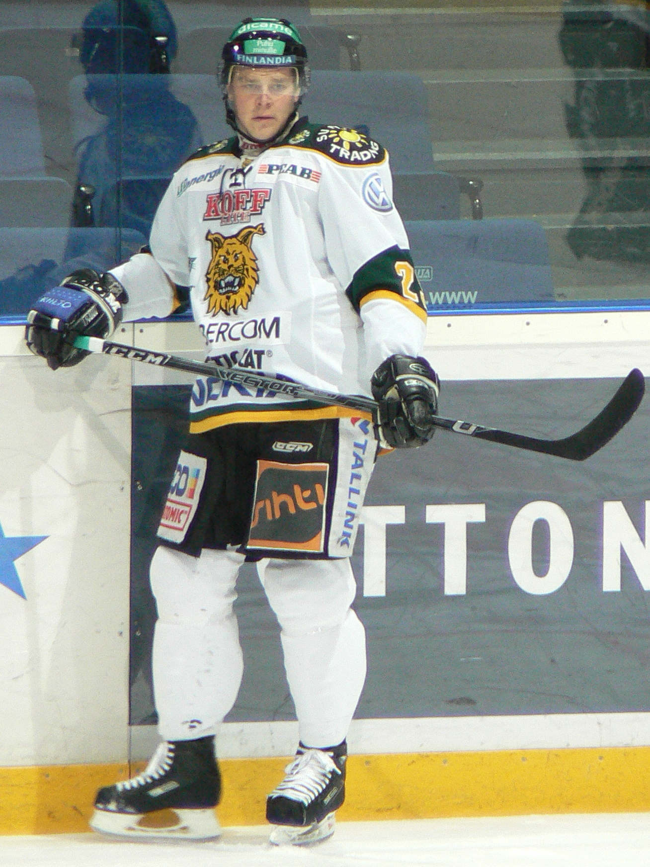 Finnish ice hockey forward Jussi Pesonen playing for Tampere Ilves in November, 2009.